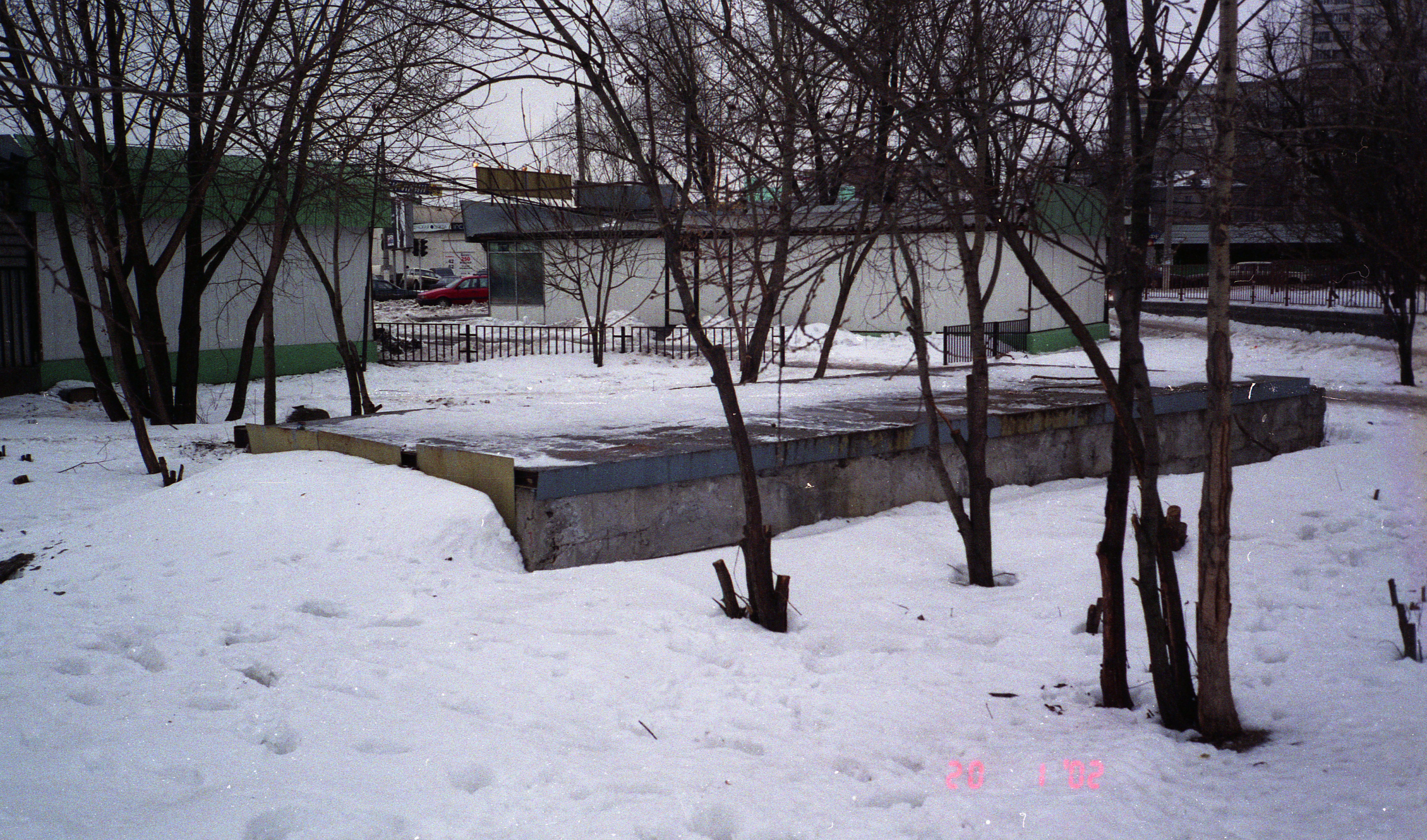 Station opened in mid 1980-s, one of exit with pedestrian subway was not opened. Moscow. Olympus mju-II camera, Konica VX200